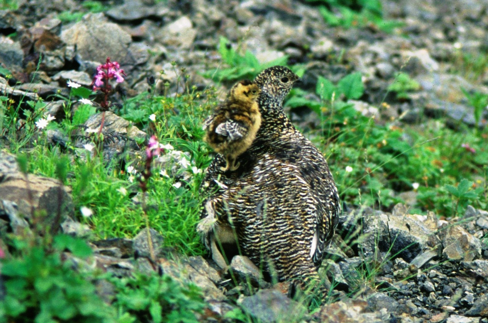 Rock Ptarmigan(Lagopus muta japonica, Lagopus mutus japonicus) in Mount Arakawa, mother and child in the Alpine plant garden.